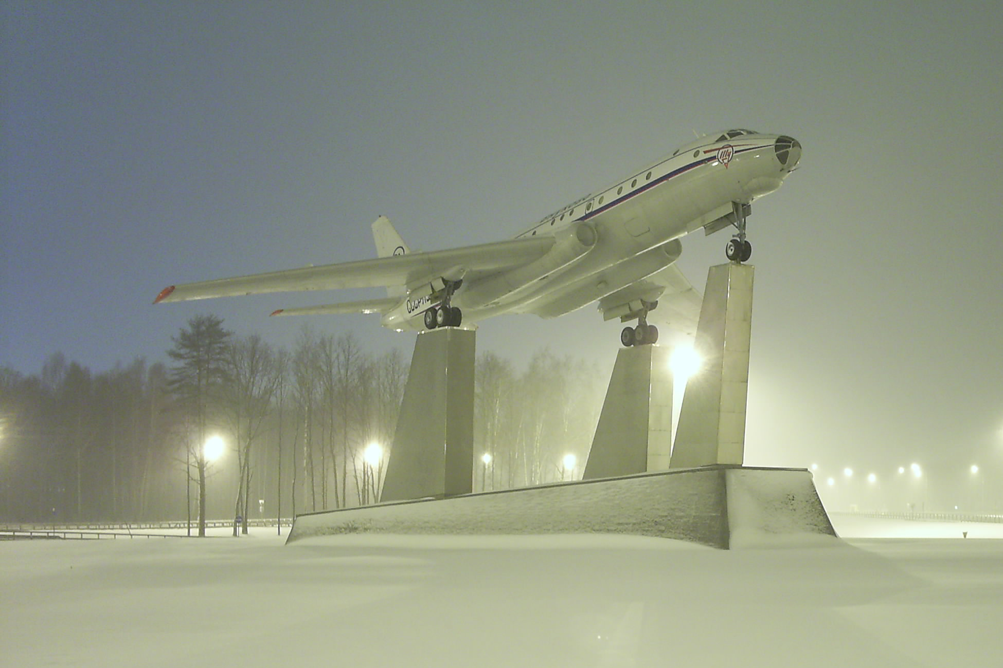 Tu-104 aircraft near Vnukovo Airport - Moscow, Russia